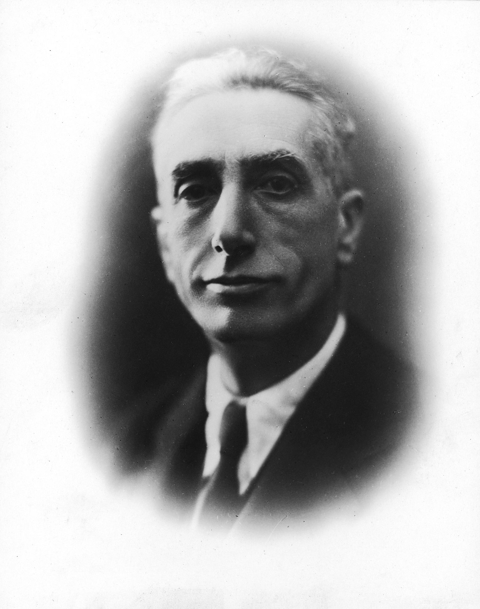 Ernesto Laura (1879-1949), Italian mathematician. He was president of Venice's Institute of Science, Literature and Arts